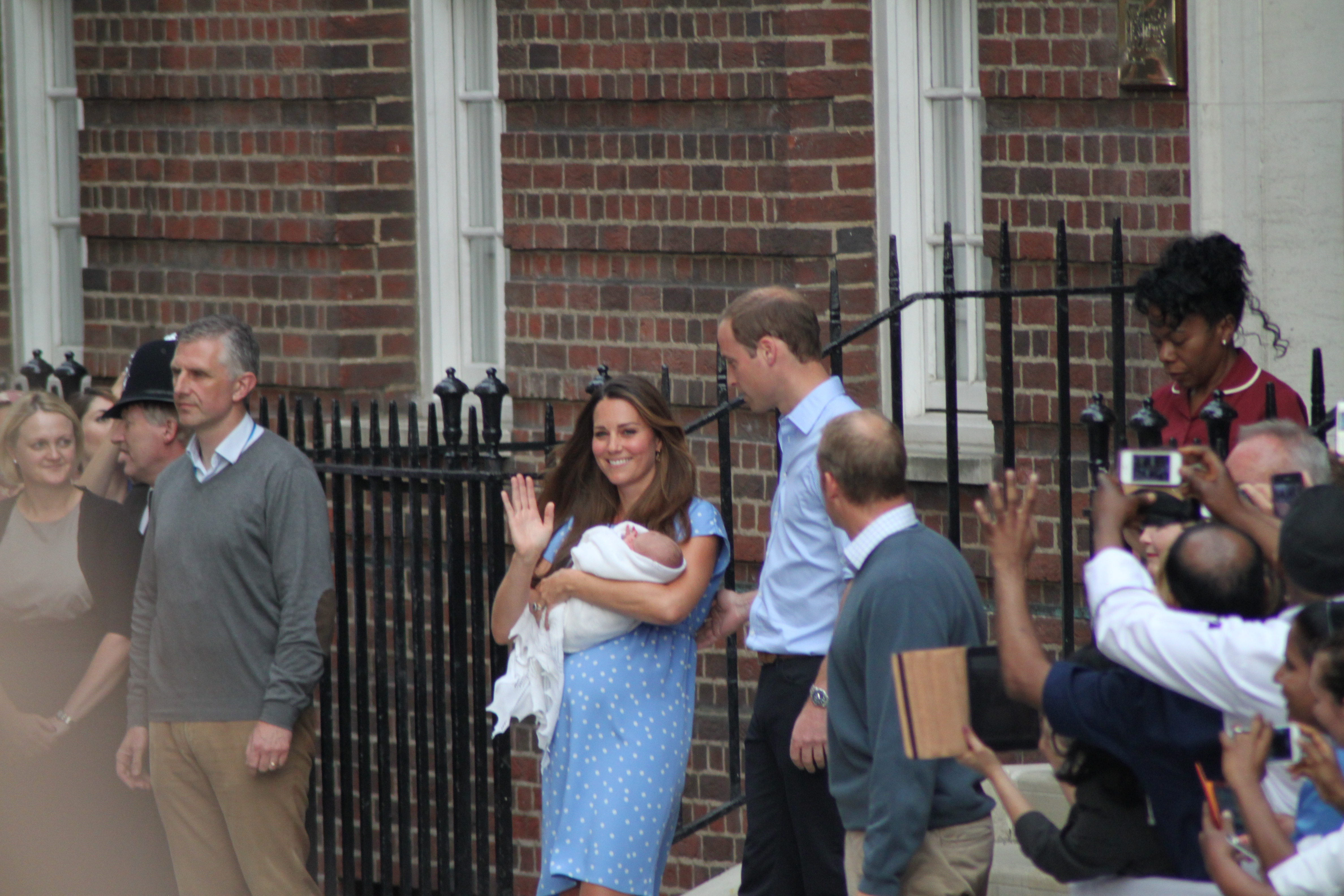 The Duke and Duchess of Cambridge with Prince George outside the Lindo Wing of St Mary's Hospital